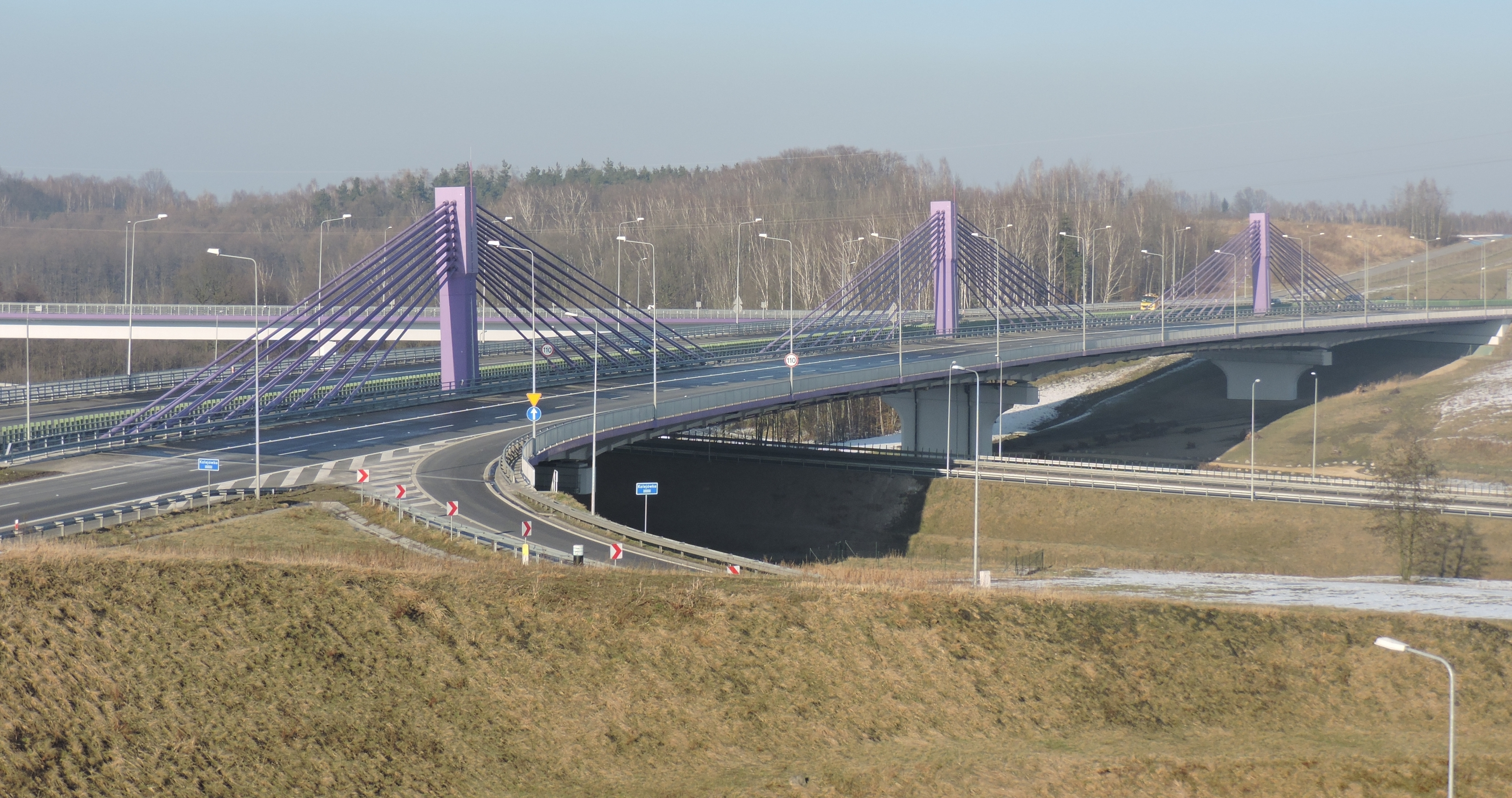 The widest extradosed bridge in the world in Mszana near Wodzisław Śląski on A1 (Amber Highway in Poland).